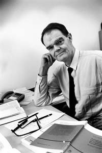 Gilles Petitpierre